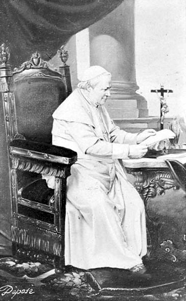 Portrait of Pope Pius IX. This is either the picture of a painting, or a painted-over photograph. Around 1865.